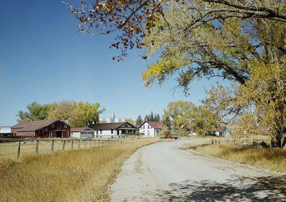 Swan Land & Cattle Company — State Route 313, Chugwater — Platte County, southeastern Wyoming - (cropped). National Historic Landmark in Wyoming. Image courtesy of Historic American Buildings Survey—HABS.